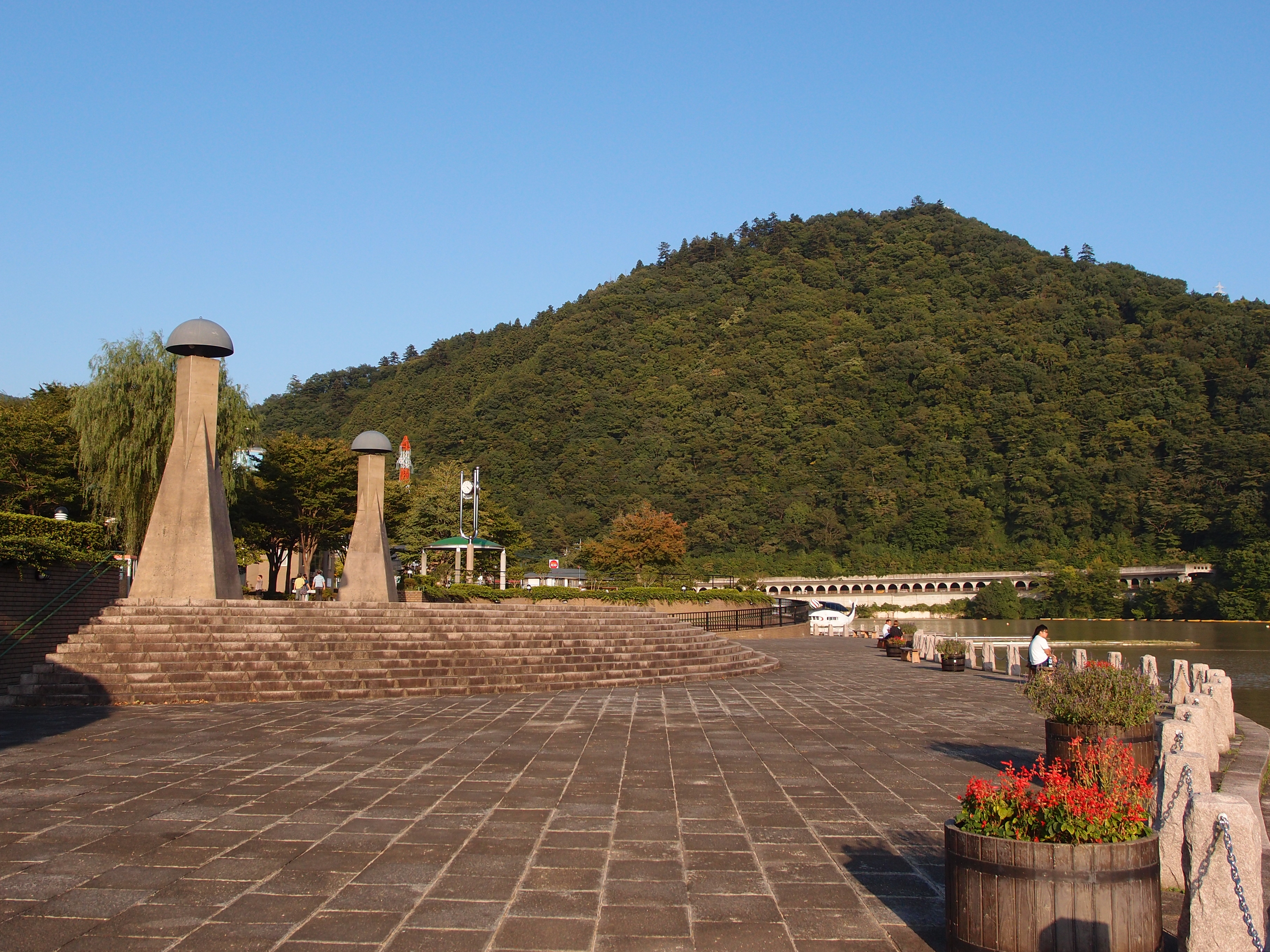 Sagamiko Park with Mount Arashiyama in Sagami, Kanagawa Prefecture, Japan.